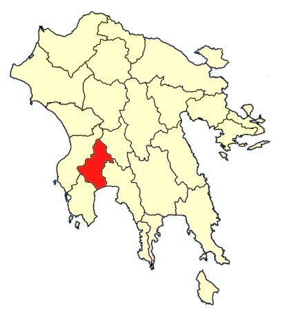 messini province